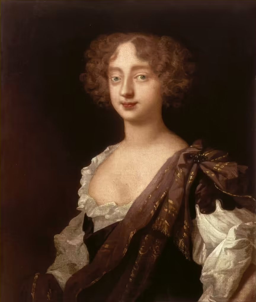 Presumed portrait of Charlotte of Brunswick-Lüneburg (1671-1710), duchess of Modena